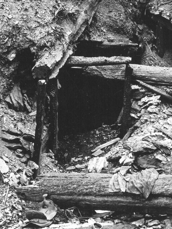 Entrance to the Pulaski escape tunnel shortly after the Great Fire of 1910; location is near Wallace, Idaho